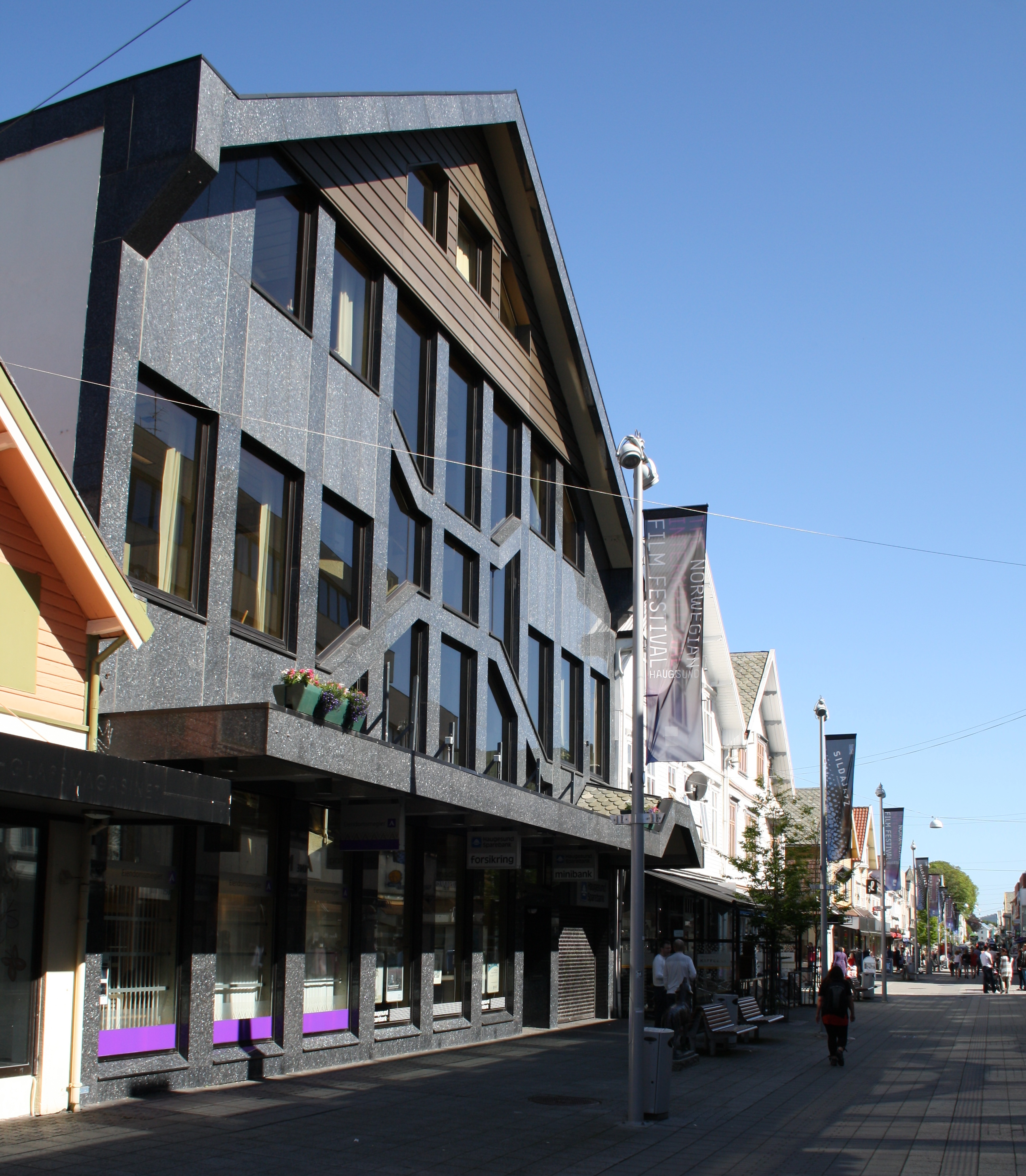 Haugesund Sparebank, Haraldsgaten 115, Haugesund.